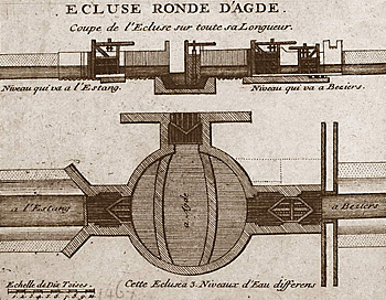 Detail of a map of Canal du Midi from the late 17. century, slightly retouched